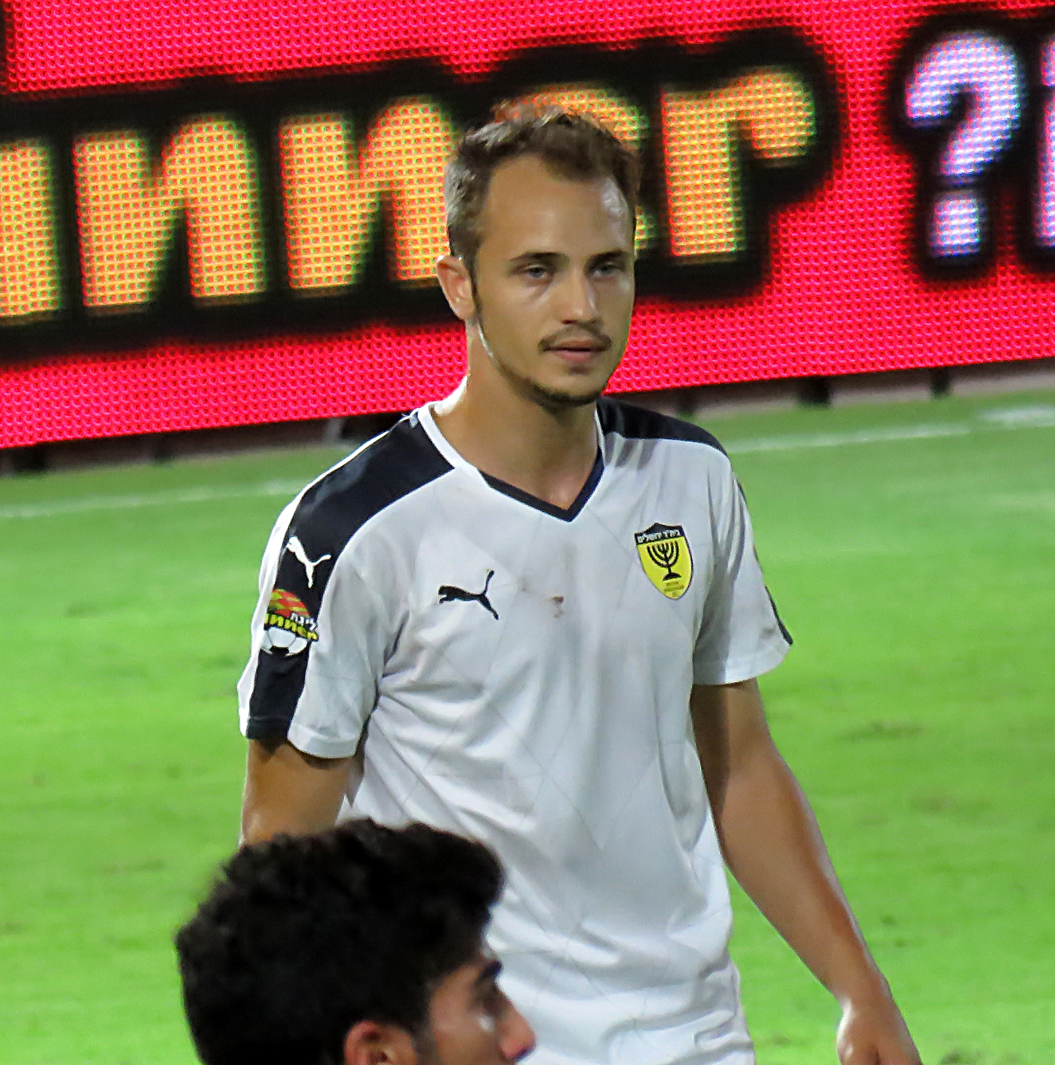 Bnei Yehuda Tel Aviv vs. Beitar Jerusalem - 19 September, 2015